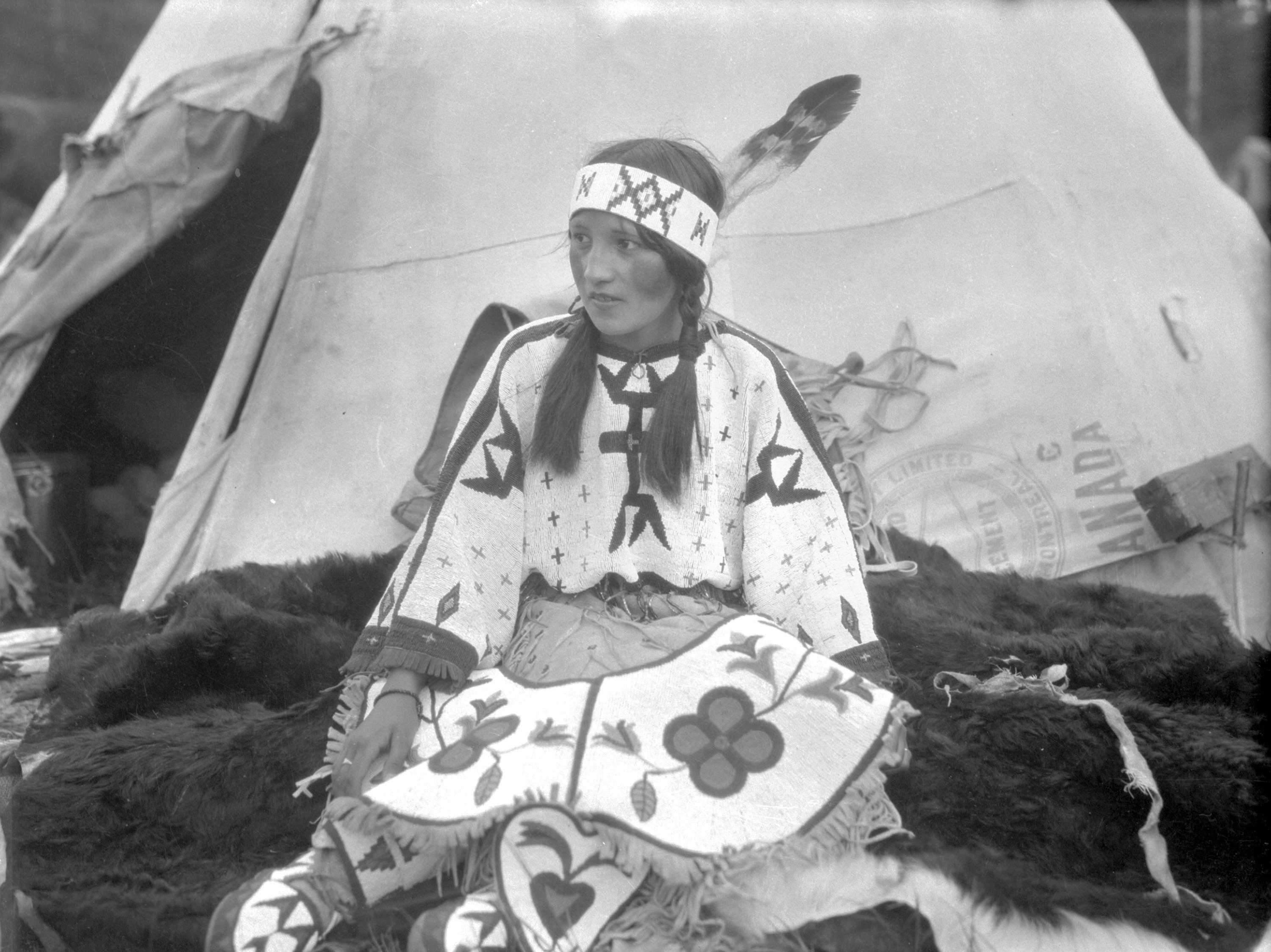 Near Banff, Alberta. From the Paul Coze fonds, PR2006.0508/7.